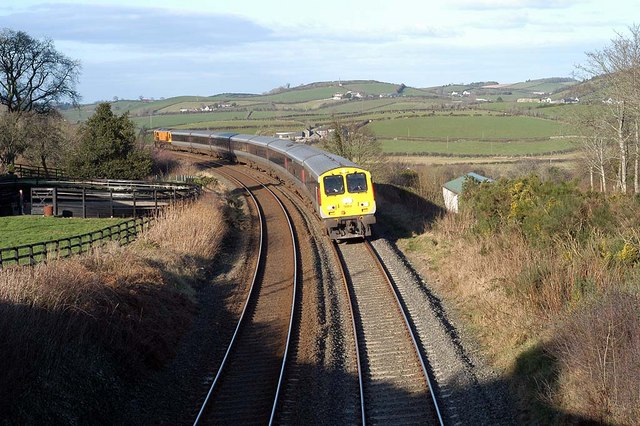 Goraghwood The 14:10 Belfast to Dublin Enterprise about to enter a short cutting near Goraghwood